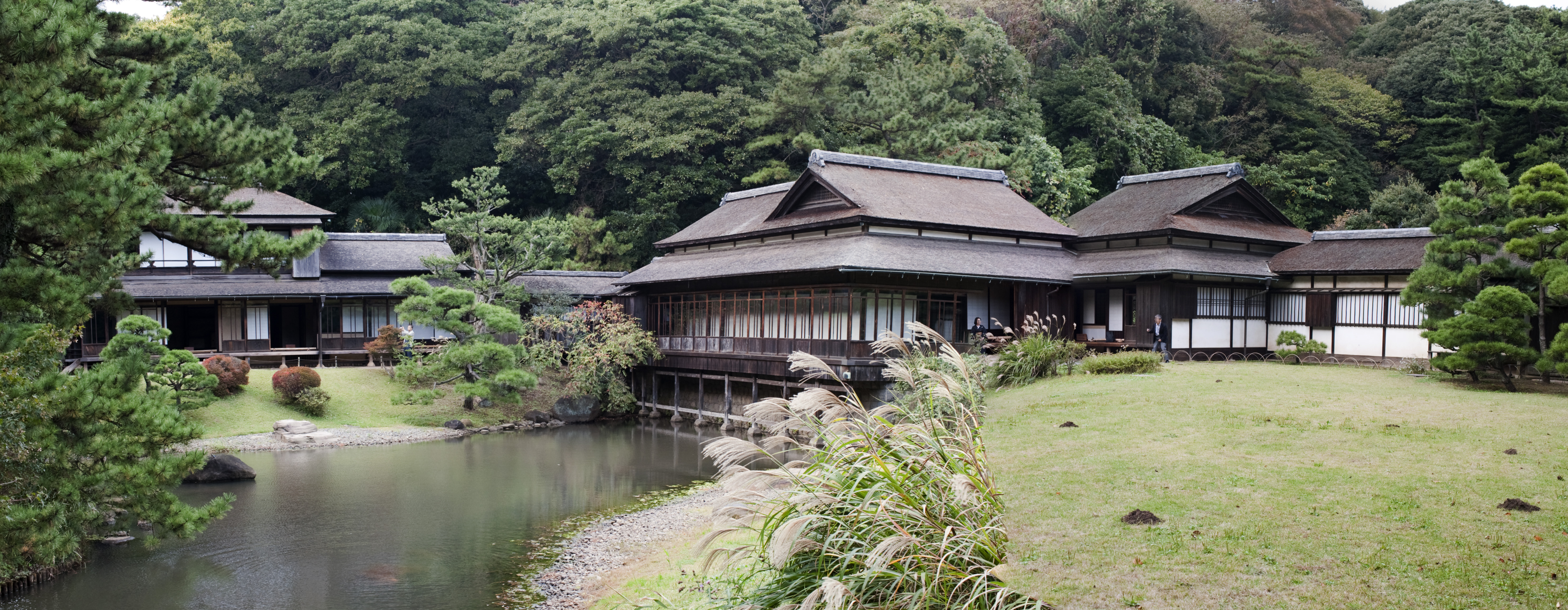 The Rinshunkaku at the Sankei-en near Yokohama